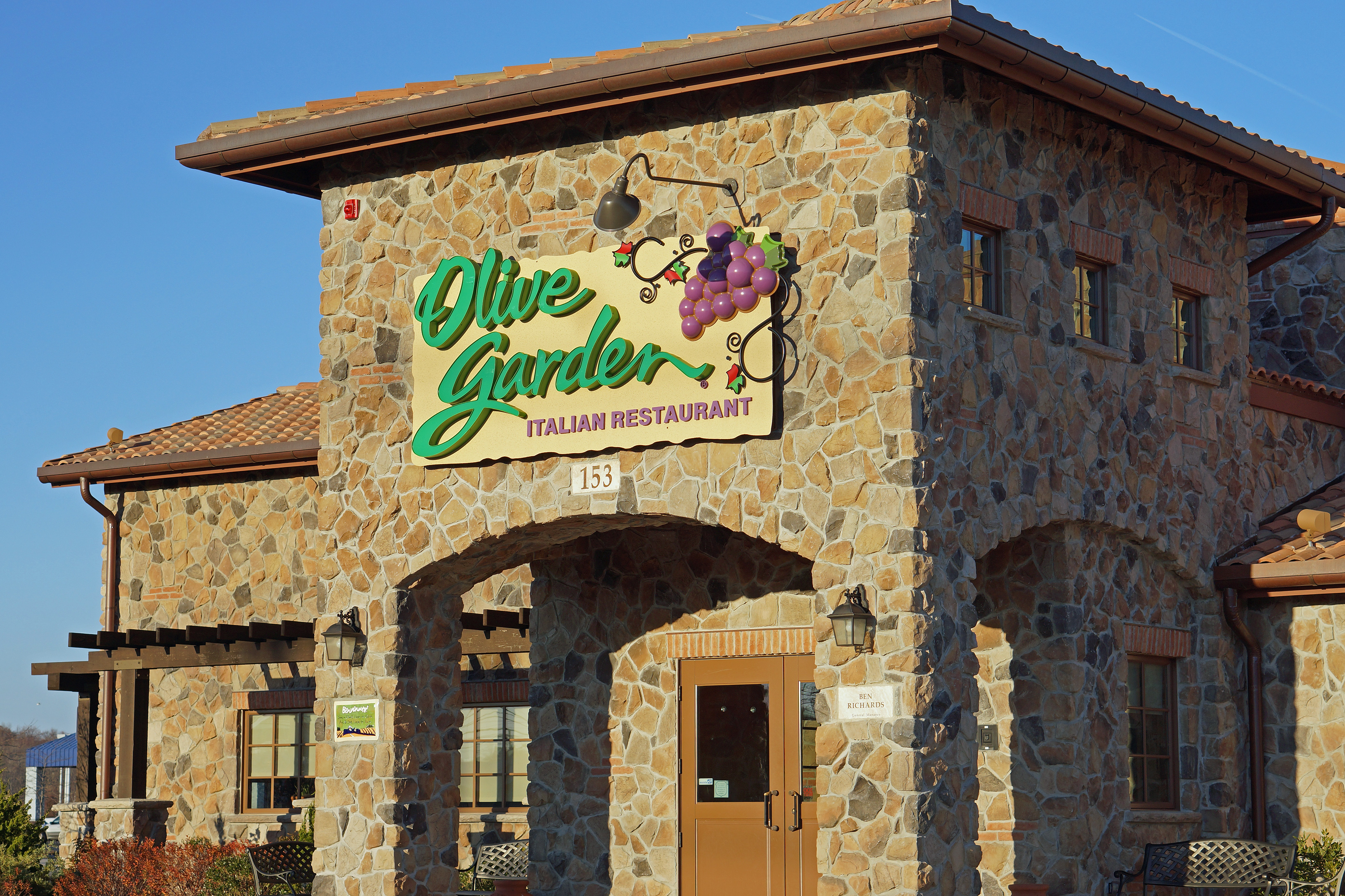 Olive Garden Italian Restaurant, Danvers, Massachusettss USA